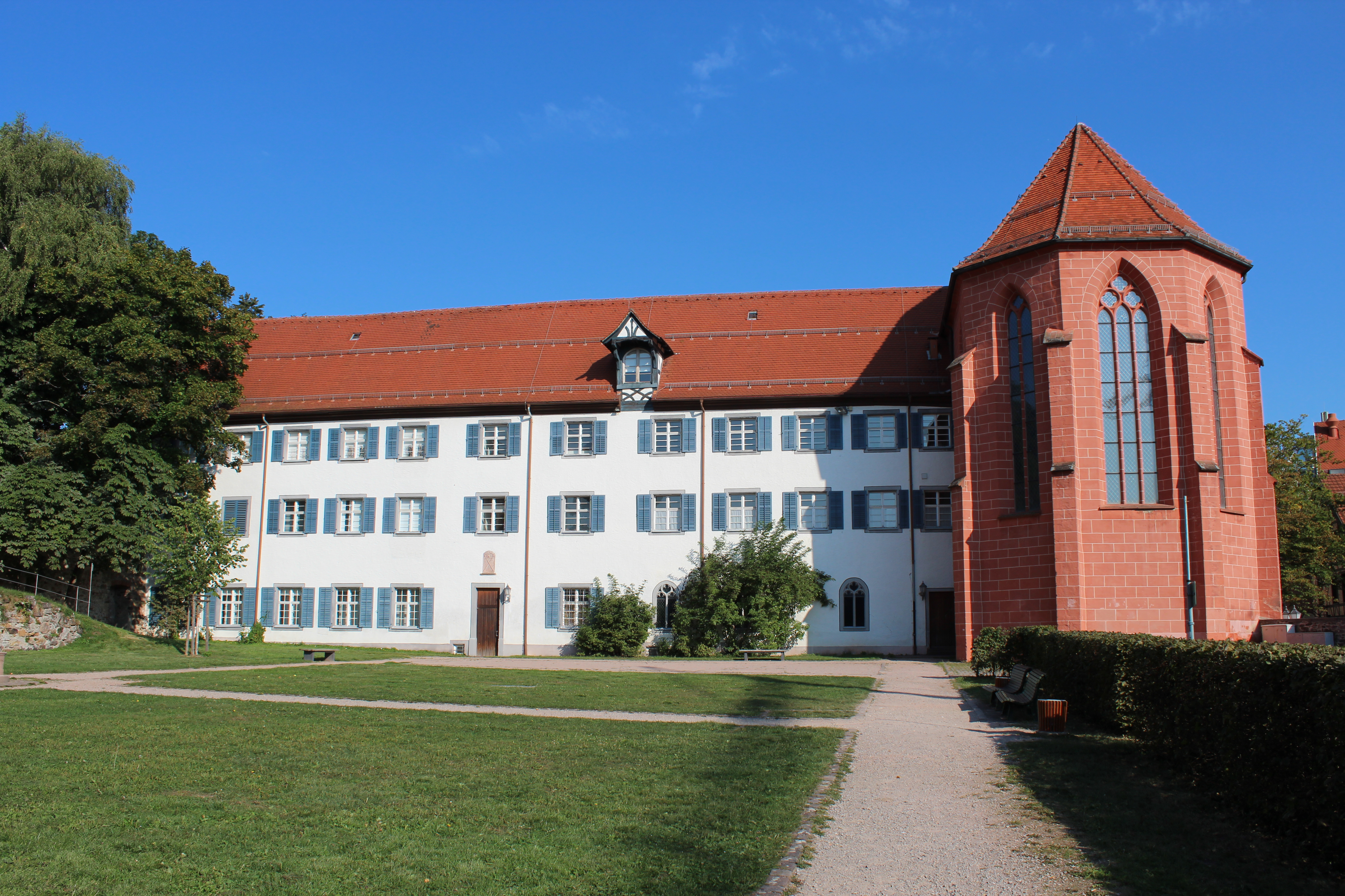 View of the Franciscan Museum from the South